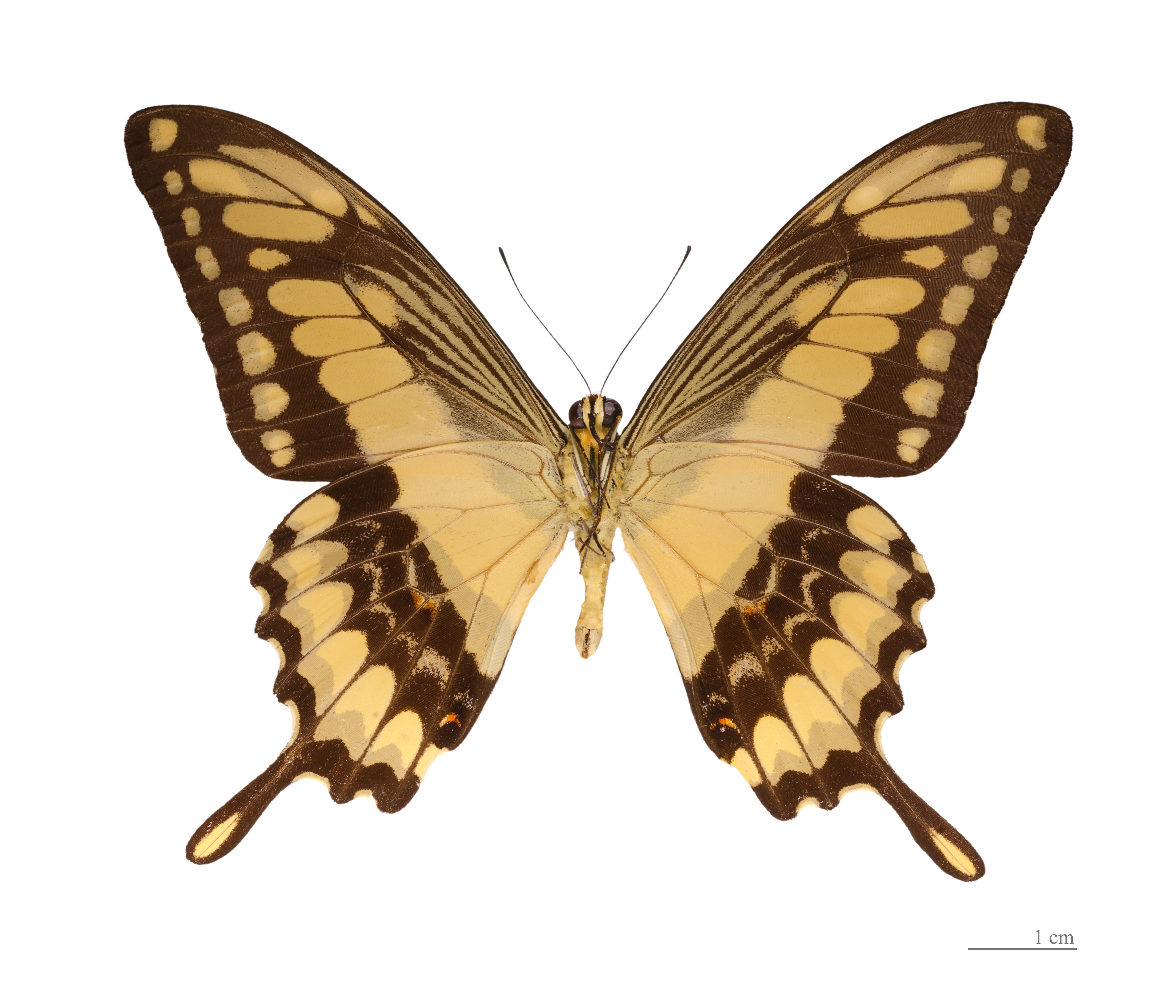 ♂ - △ Ventral side Locality: Sentier du Rorota Cayenne, French Guianna